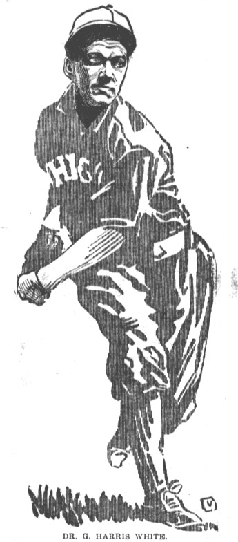 Professional baseball player Doc White